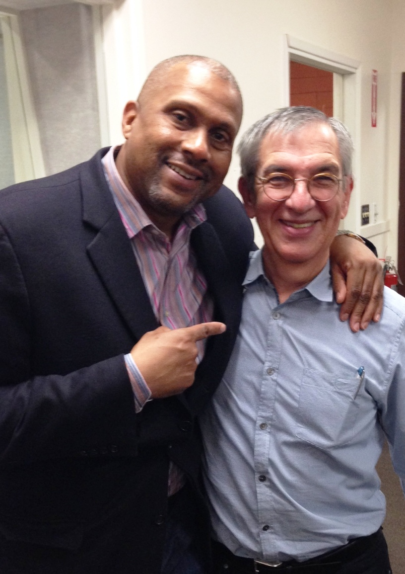 Tavis Smiley (left) is an American talk show host, author, liberal political commentator, entrepreneur, advocate and philanthropist. Jon Wiener is an American historian and journalist based in Los Angeles, and the host of the political podcast Start Making Sense in 2015.